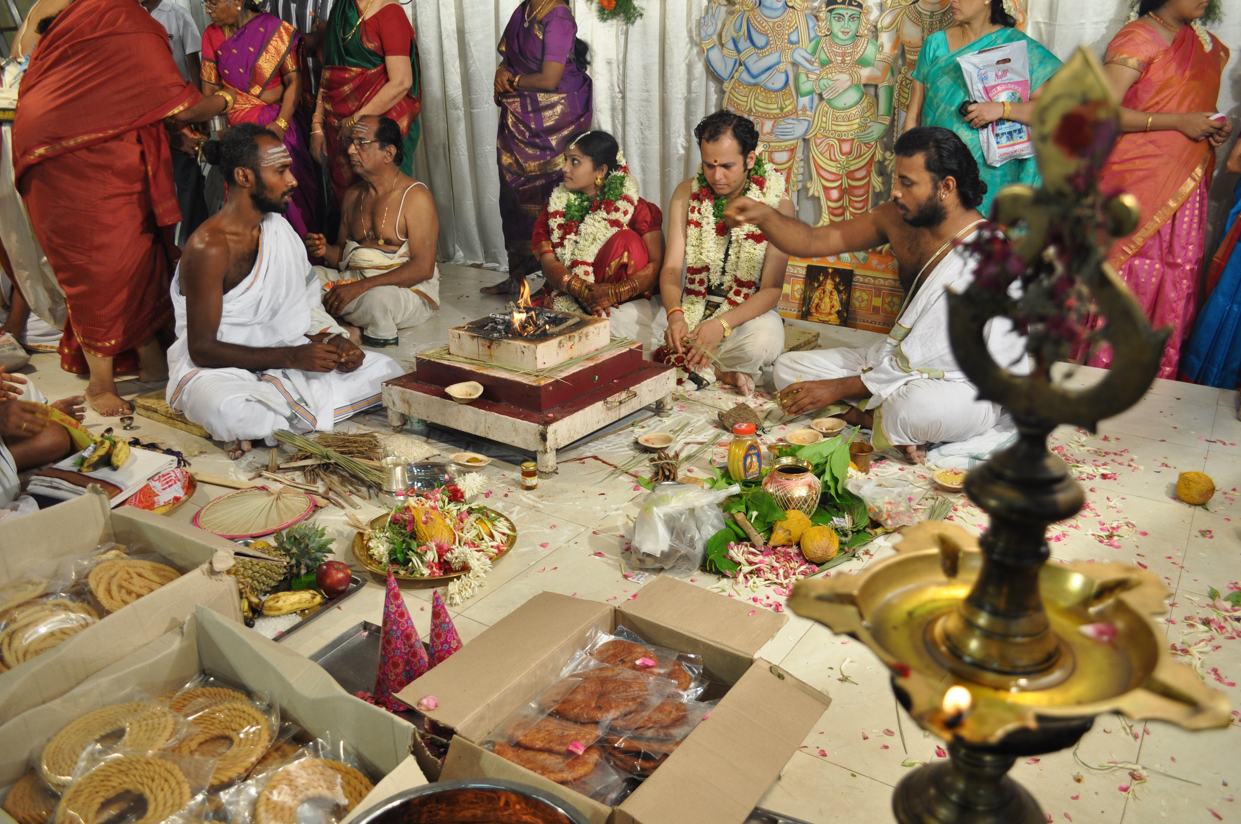 Tamil Brahmin Hindu Marriage